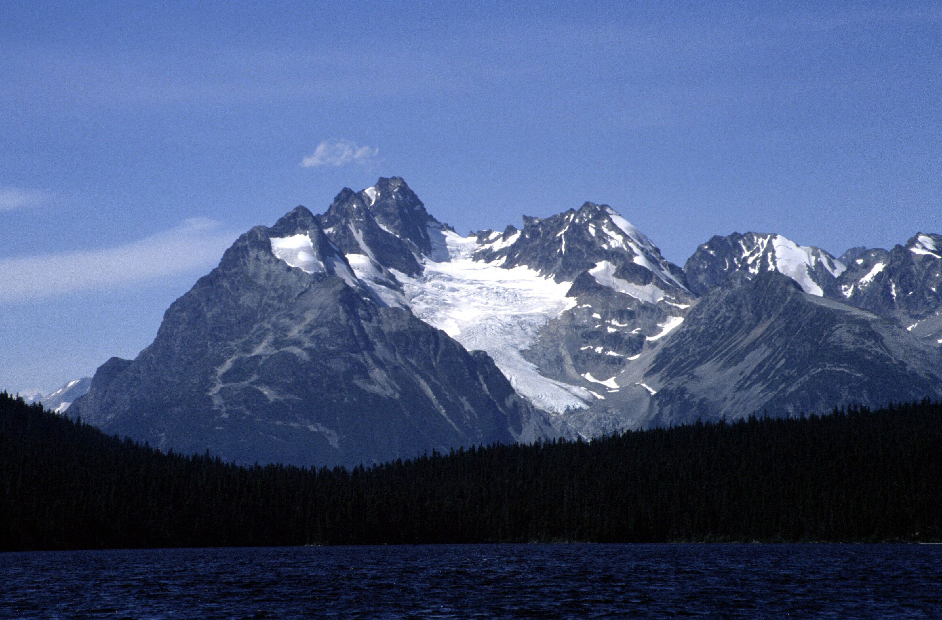 Kidney Lake with a part of the Coast Mountains in the background, August 1981.